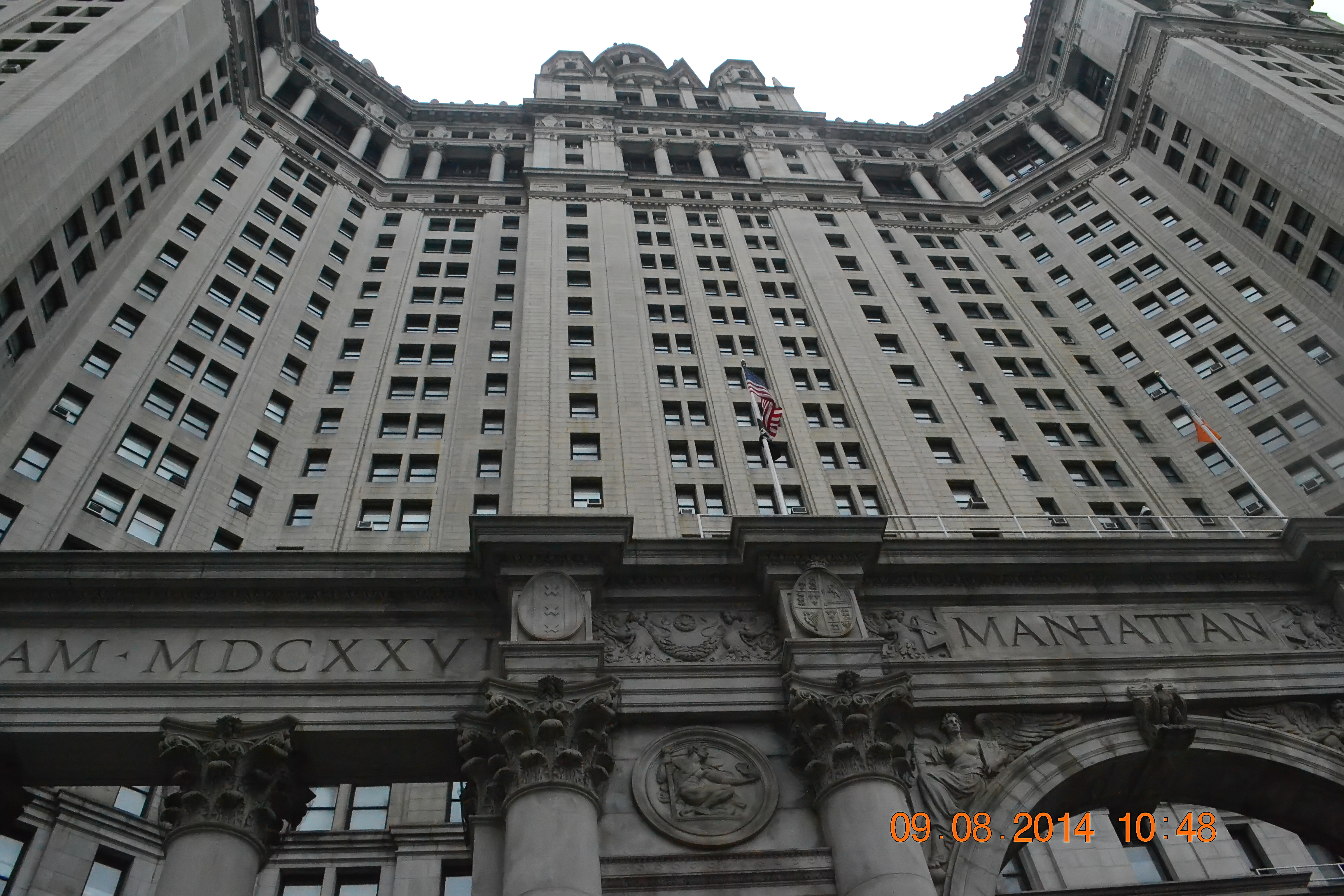 One Police Plaza is the headquarters of the New York City Police Department. The building is located on Park Row in Civic Center, Manhattan near New York City's City Hall and the Brooklyn Bridge. Its block borders Park Row, Pearl Street, and Police Plaza.